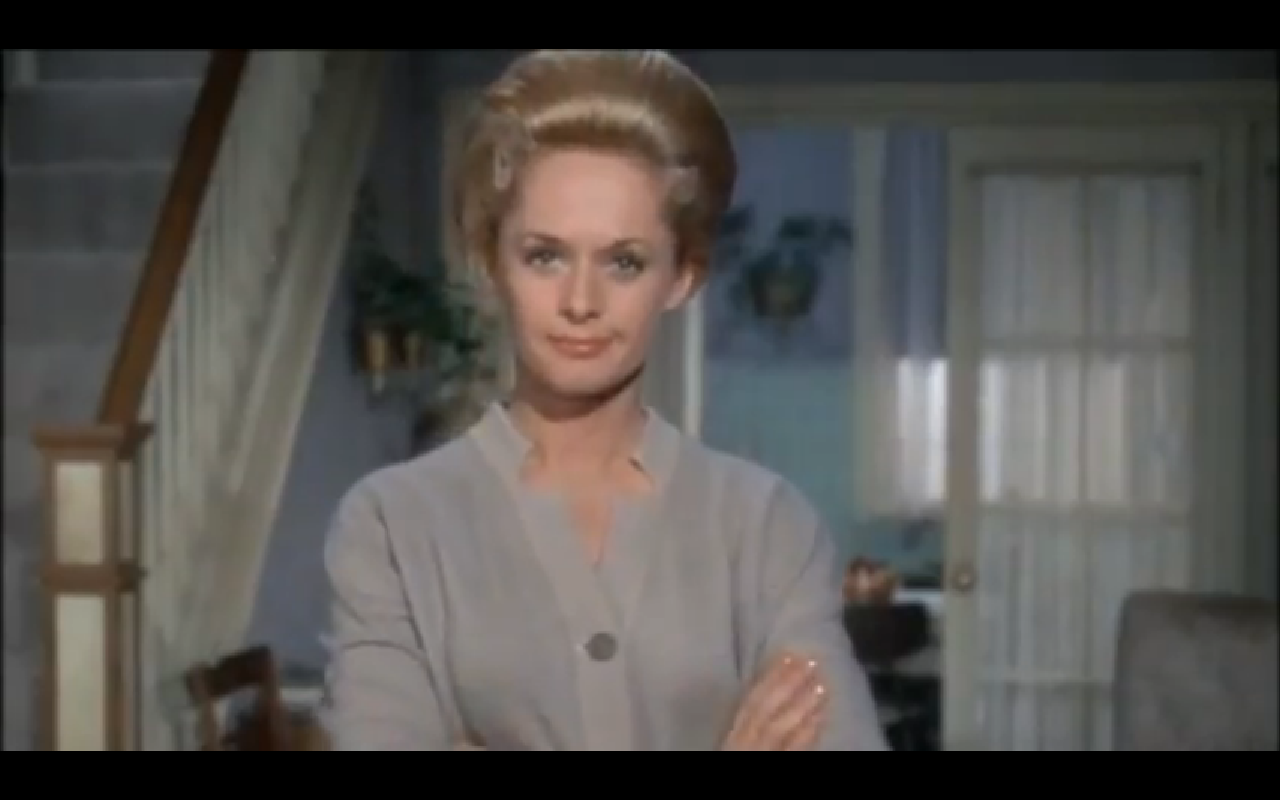 Tippi Hedren in Hitchcock's "Marnie" trailer.